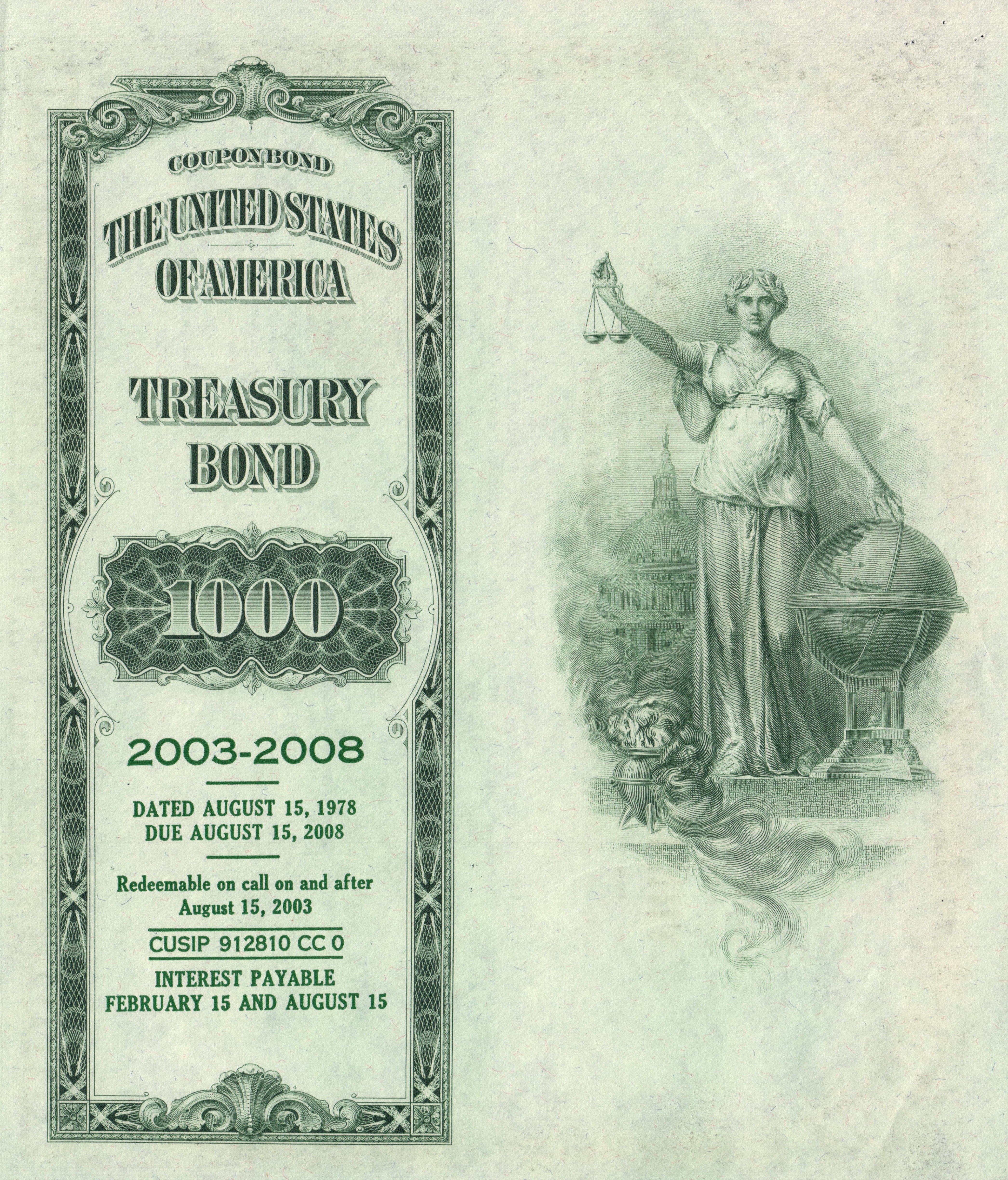 1978 $1000 8 3-8% Treasury Bond (reverse)